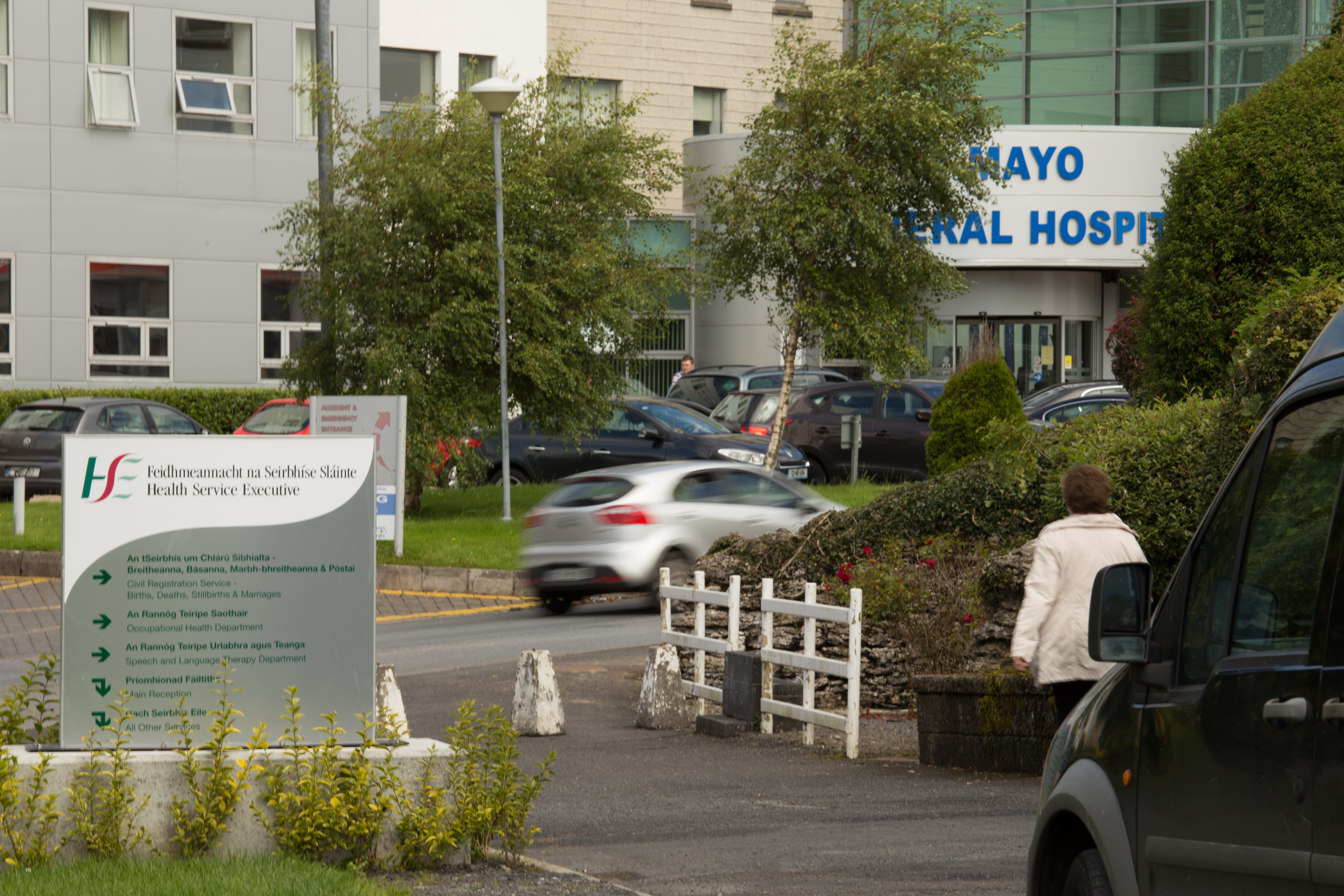 Image of the main entrance of Mayo General Hospital